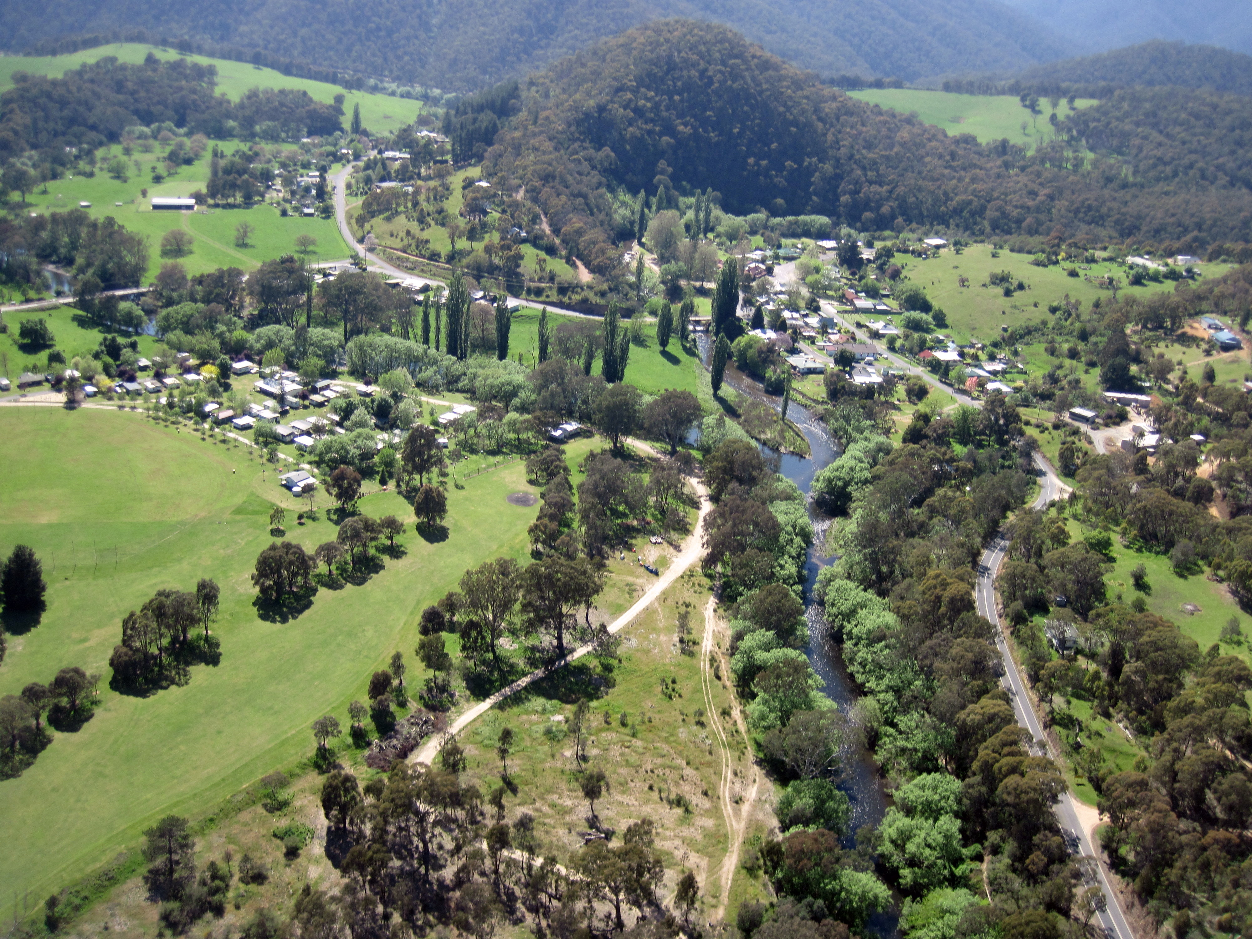 Aerial photograph of Mitta Mitta, Victoria taken September 2009.